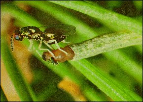 Chrysocharis laricinellae ovipositing